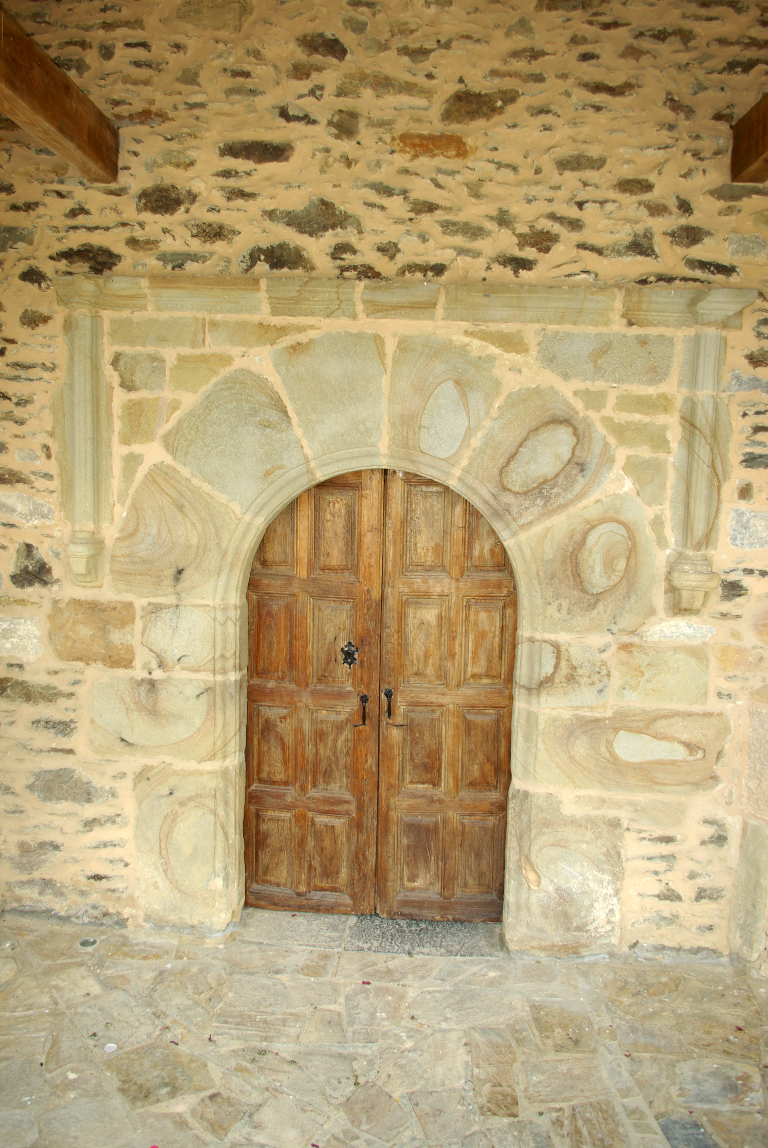 Detail of Sanctuary of Pandorado, Riello (León, Spain)